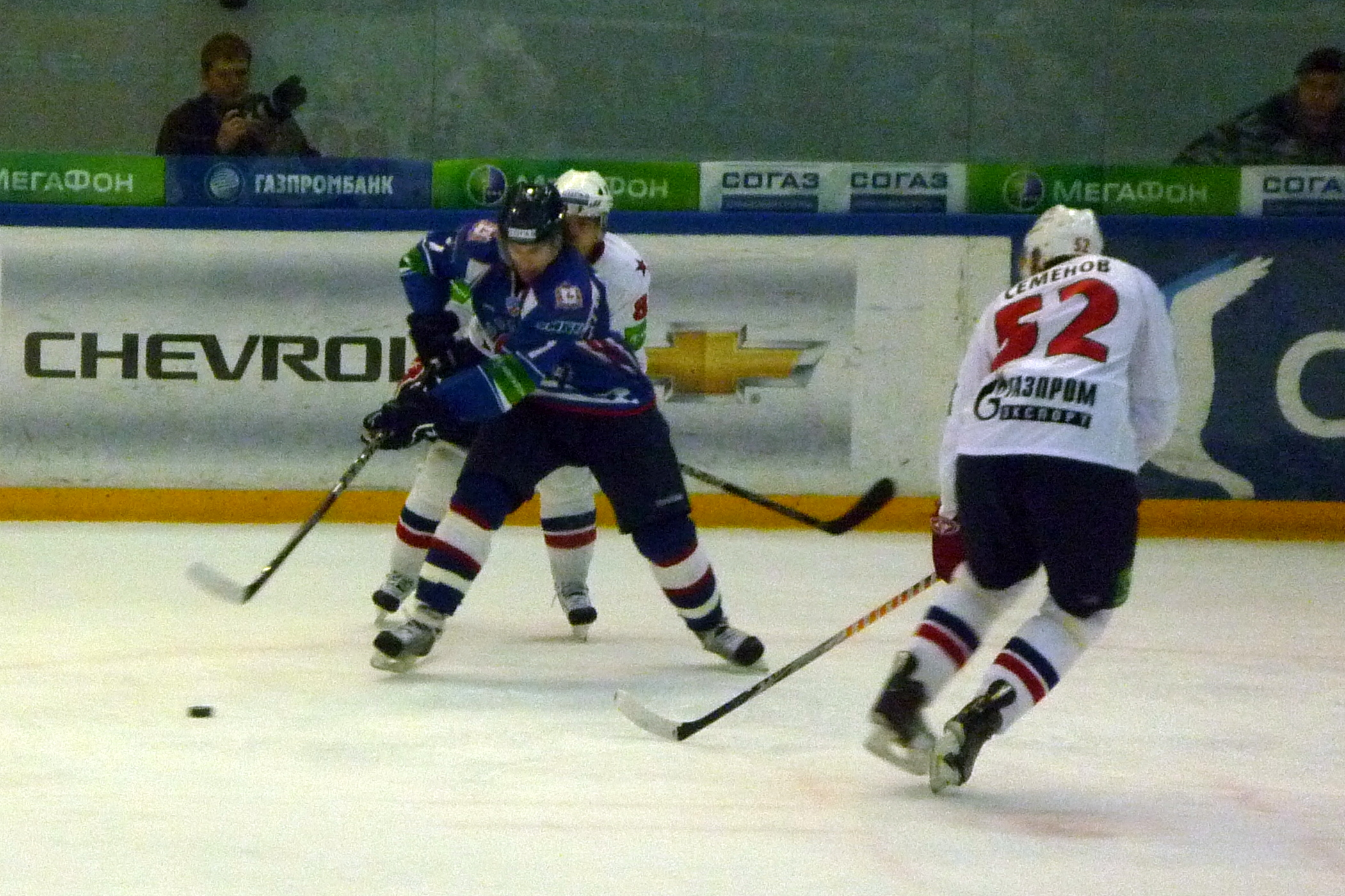 Charles Linglet during the Torpedo NN vs SKA St-Pb game on Dec 12, 2010